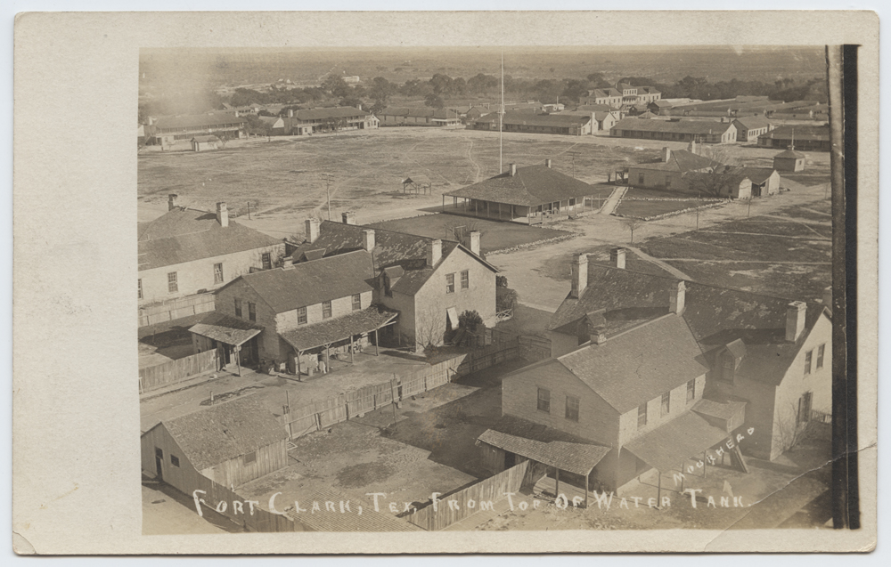 Title: Fort Clark, Tex. from Top of Water Tower Creator: Moorhead Date: ca. 1910-1918 Part Of: American border troops and the Mexican Revolution Place: Fort Clark, Kinney County, Texas Physical Description: 1 photographic print (postcard): gelatin silver; postcard 9 x 14 cm File: ag1982_0015_123c_fort.jpg Rights: Please cite DeGolyer Library, Southern Methodist University when using this file. A high-resolution version of this file may be obtained for a fee. For details see the web page. For other information, . For more information and to view the image in high resolution, see: View the Texas: Photographs, Manuscripts, and Imprints Collection